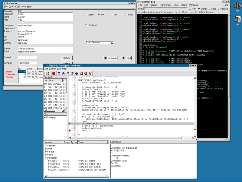 FlagShip environment thumb